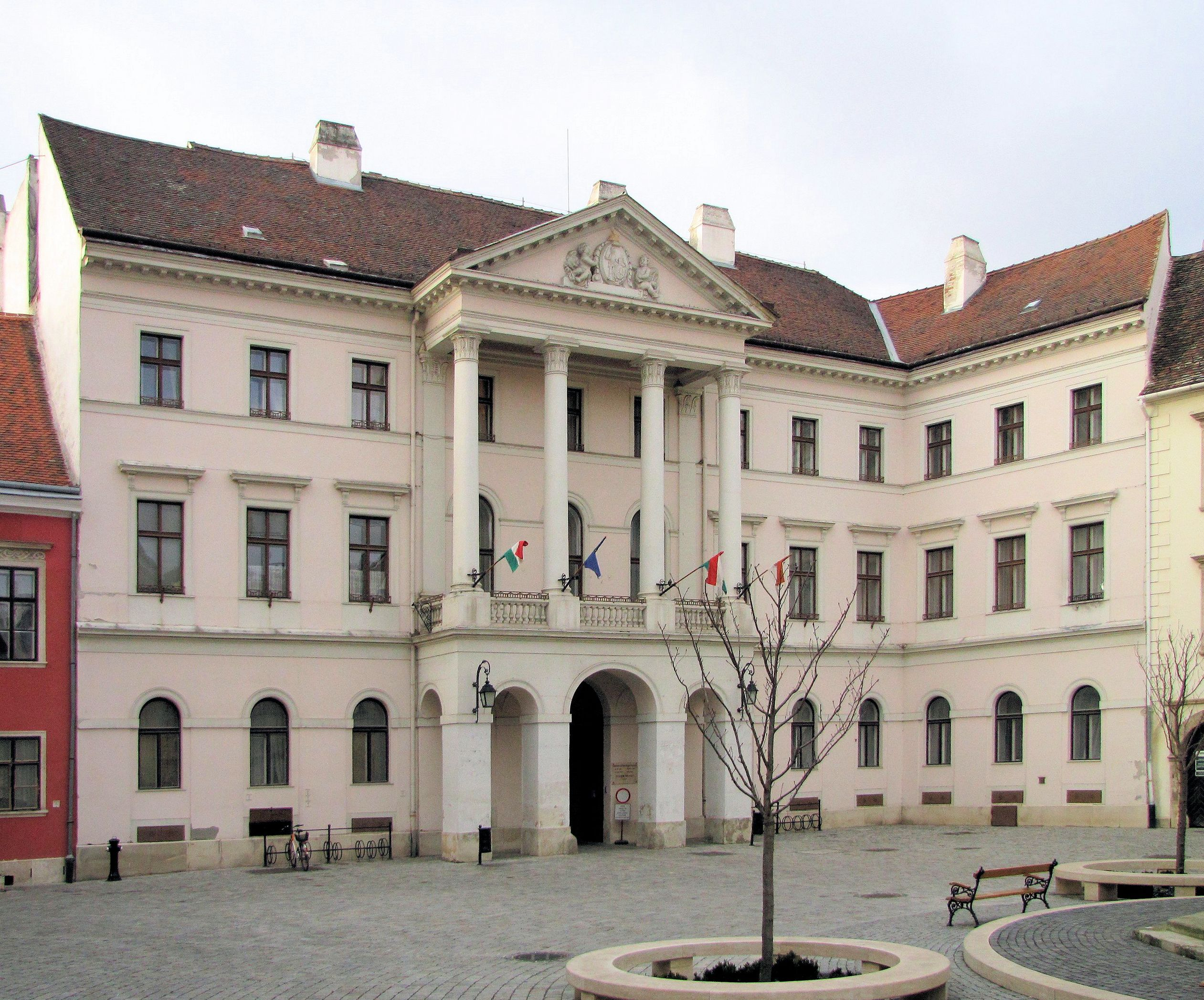 Sopron, County seat.